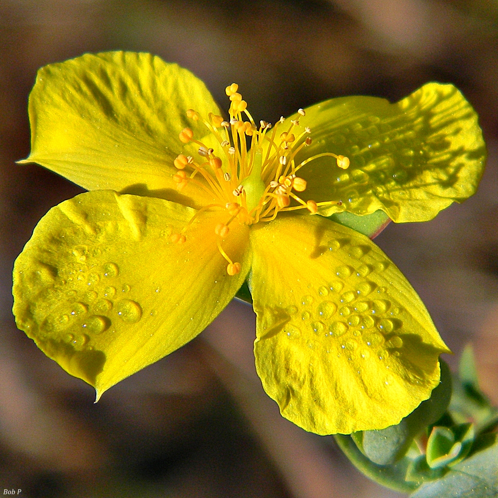 Hypericum tetrapetalum, the four petal St. John's wort, enjoying a dewy early Spring morning in Florida.